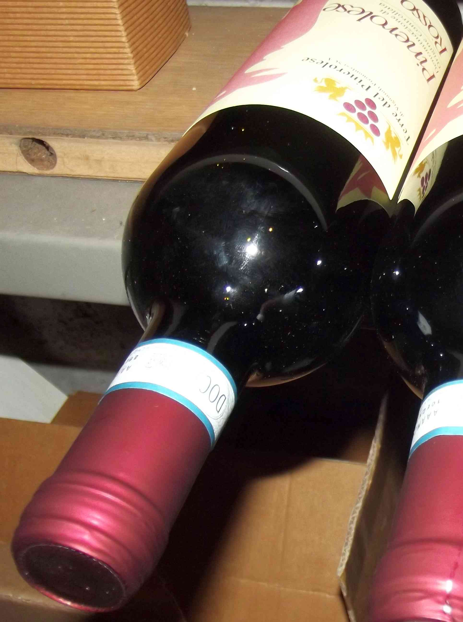 Pinerolese DOC rosso